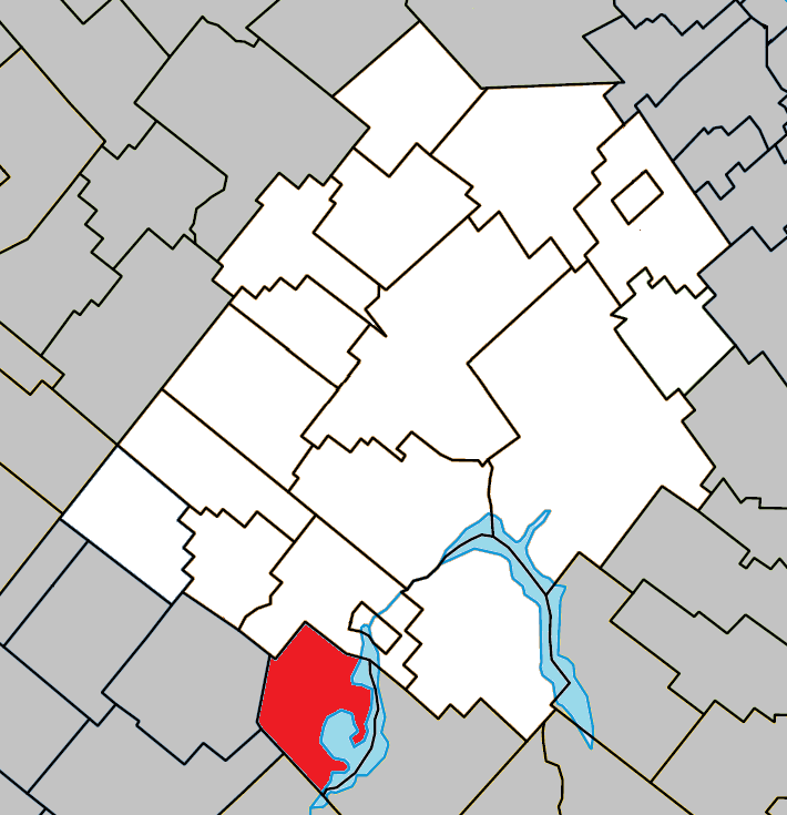 Location of Beaulac-Garthby, Quebec within Les Appalaches Regional County Municipality.